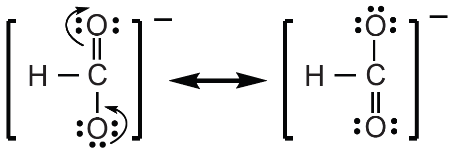 Formate ion resonance